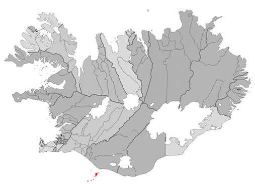 Based on Municipalities of Iceland.png.